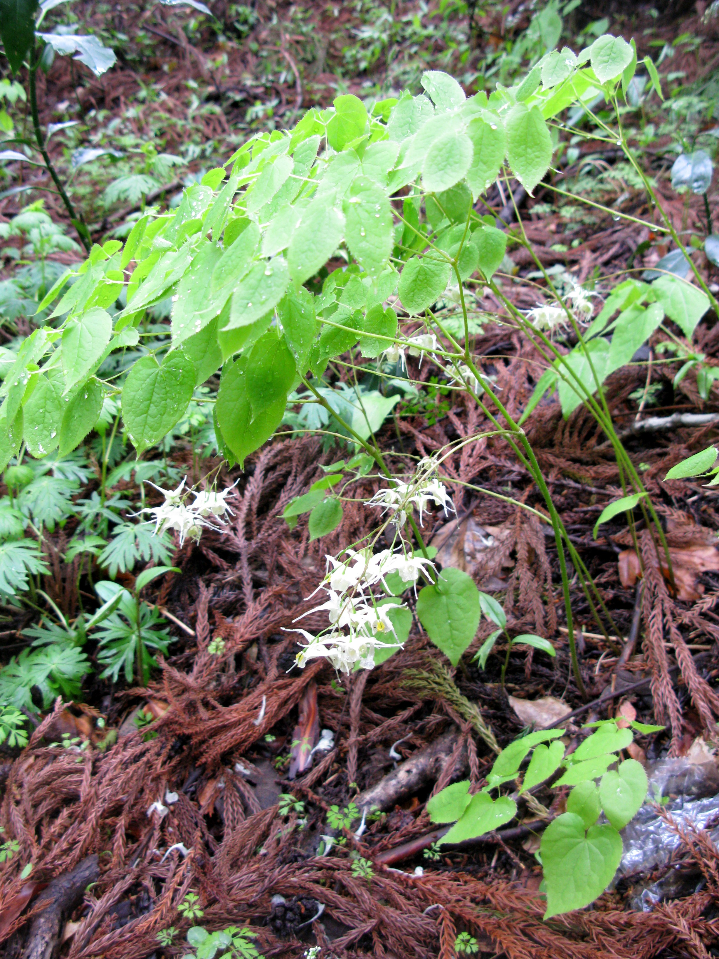 Epimedium koreanum,Aizu area,Fukushima pref.,Japan